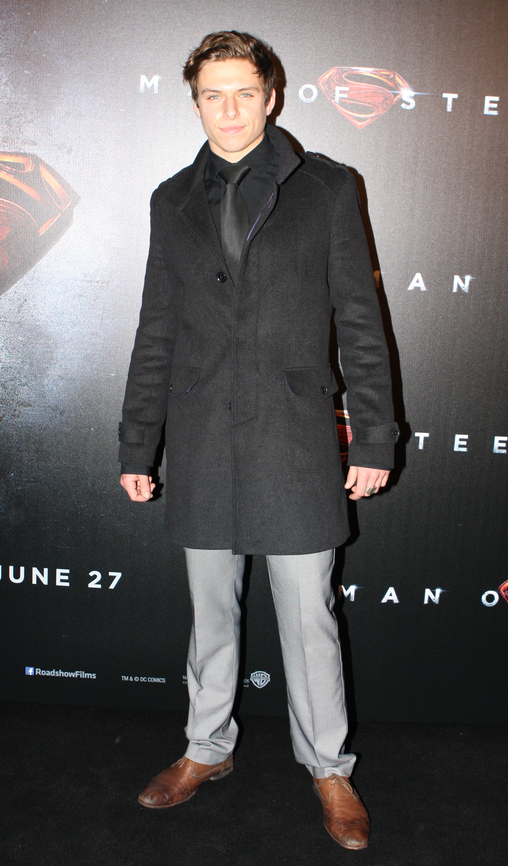 Matthew Little at Man Of Steel movie premiere, Sydney 2013